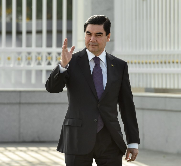 President Petro Poroshenko noted that his visit to Turkmenistan opened new opportunities for Ukrainian companies in the cooperation between the two countries.